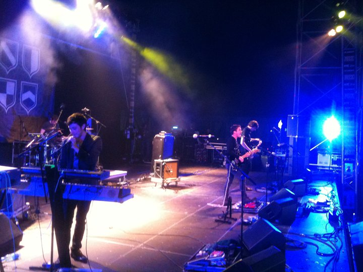 Live shot of Codes.